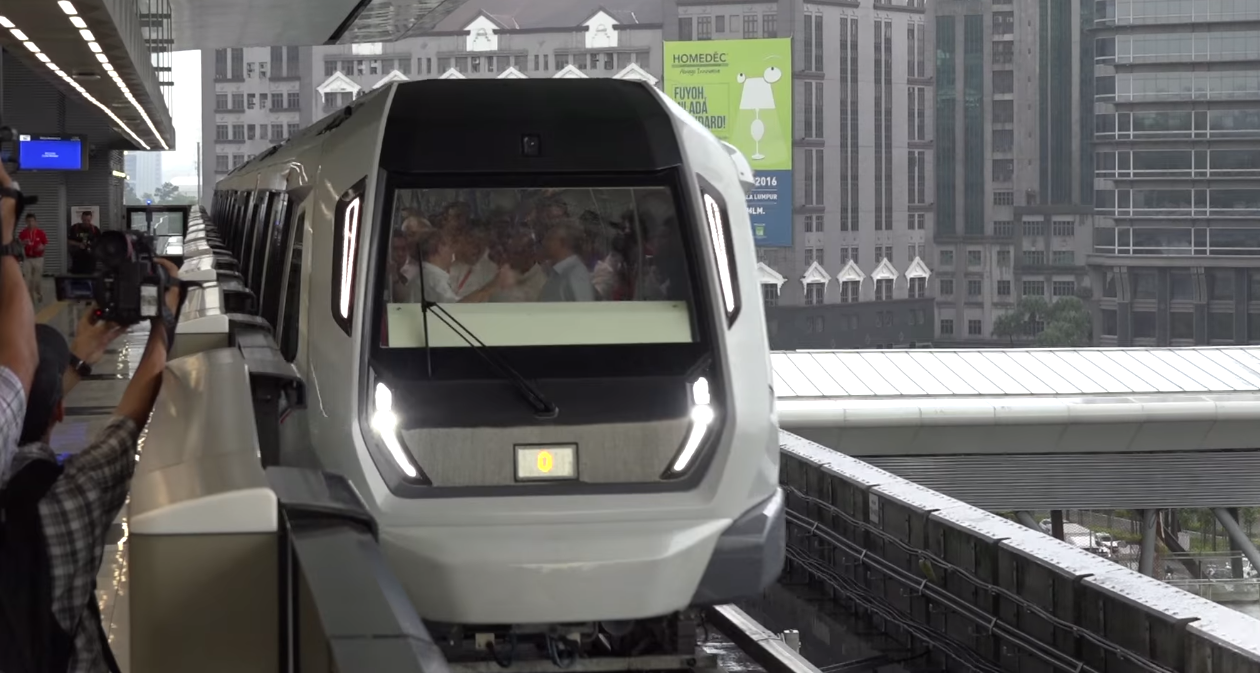 SBK trainset arriving at Phileo Damansara MRT station